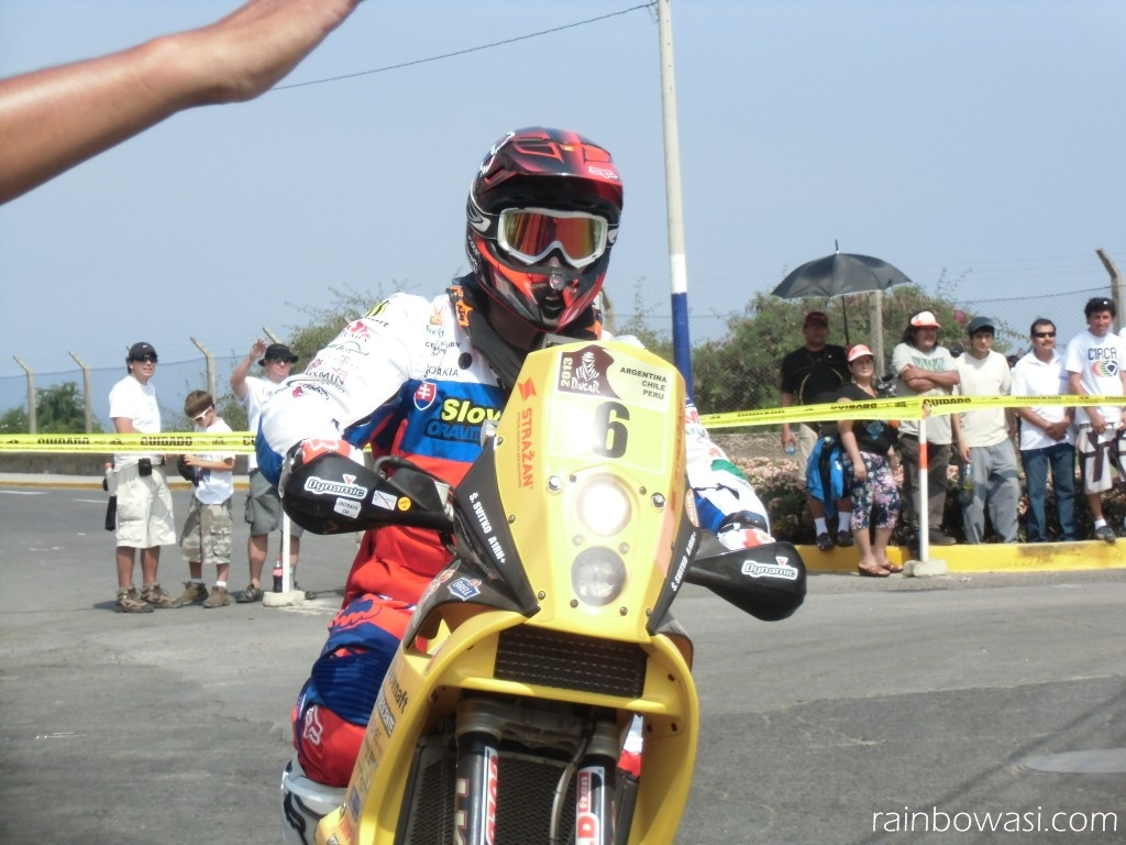 Štefan Svitko on KTM motorbike during first stage of 2013 Dakar Rally